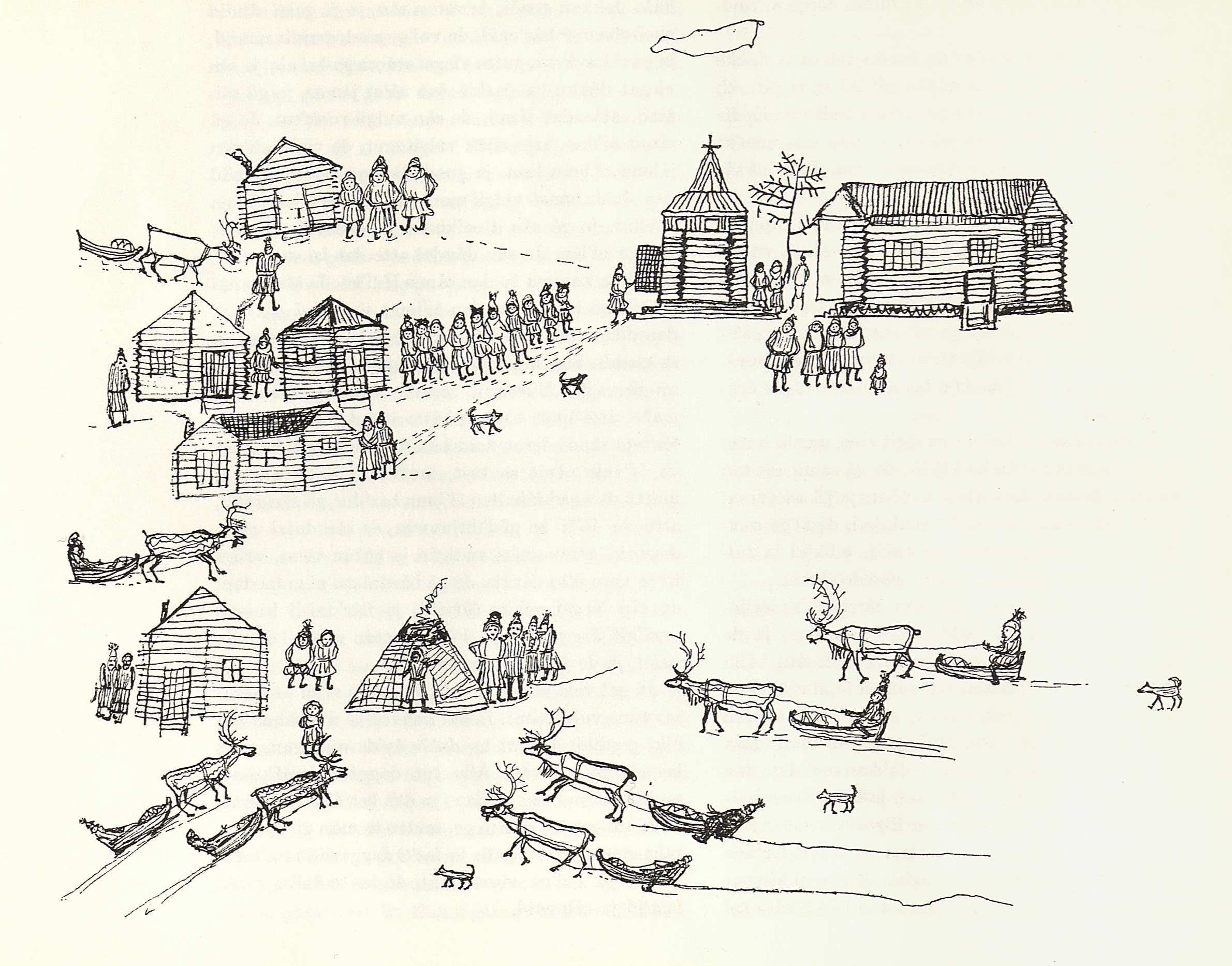 Jukkasjärvi kyrka vid Andersmäss, av Johan Turi